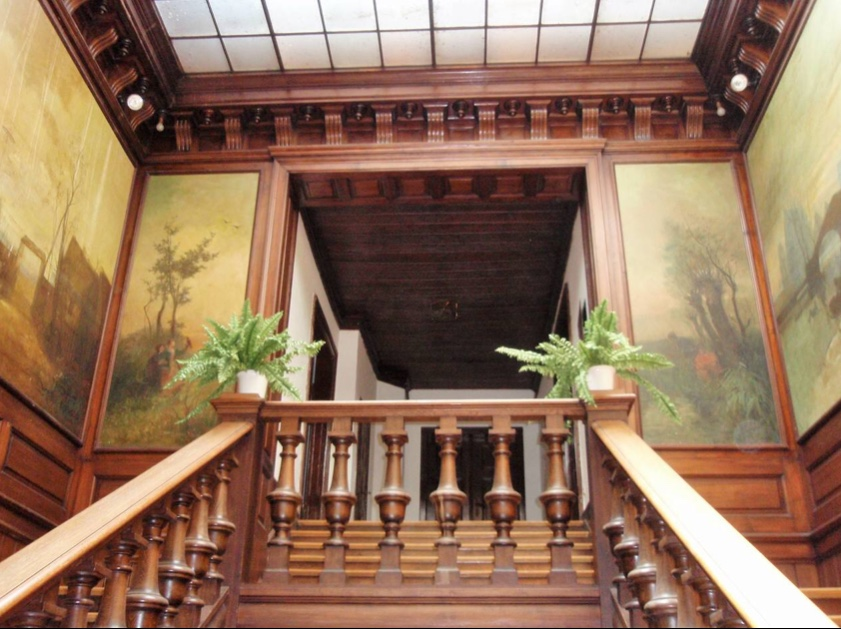 Töpperschloss Stiegenaufgang